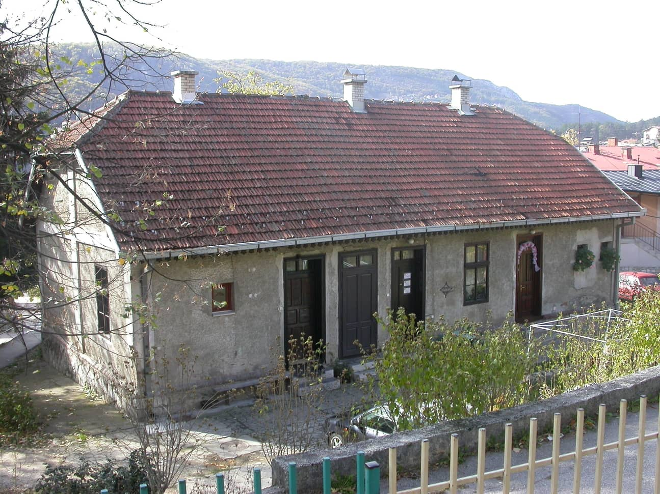 Historic buildings in Užice- Greenhouse administration building in Krčagovo